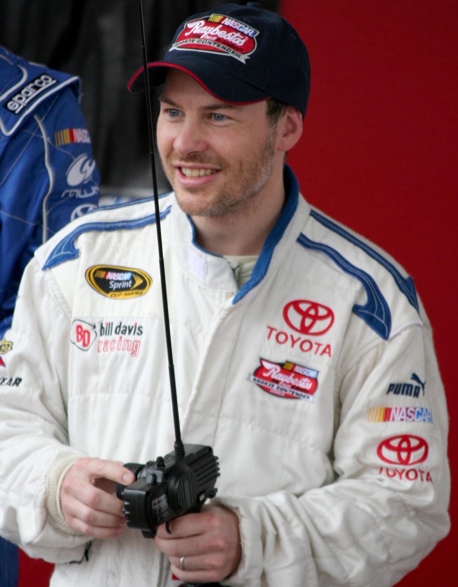 Shot by The Daredevil at Daytona during Speedweeks 2008